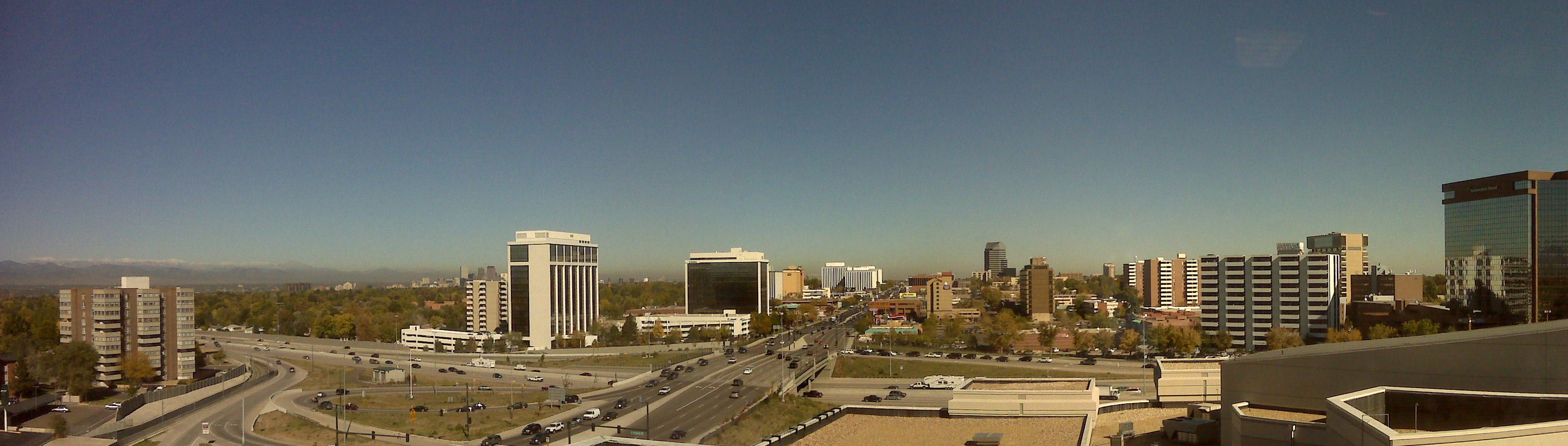 Skyline of the Colorado Blvd and I-25 interchange. Looking north towards downtown.